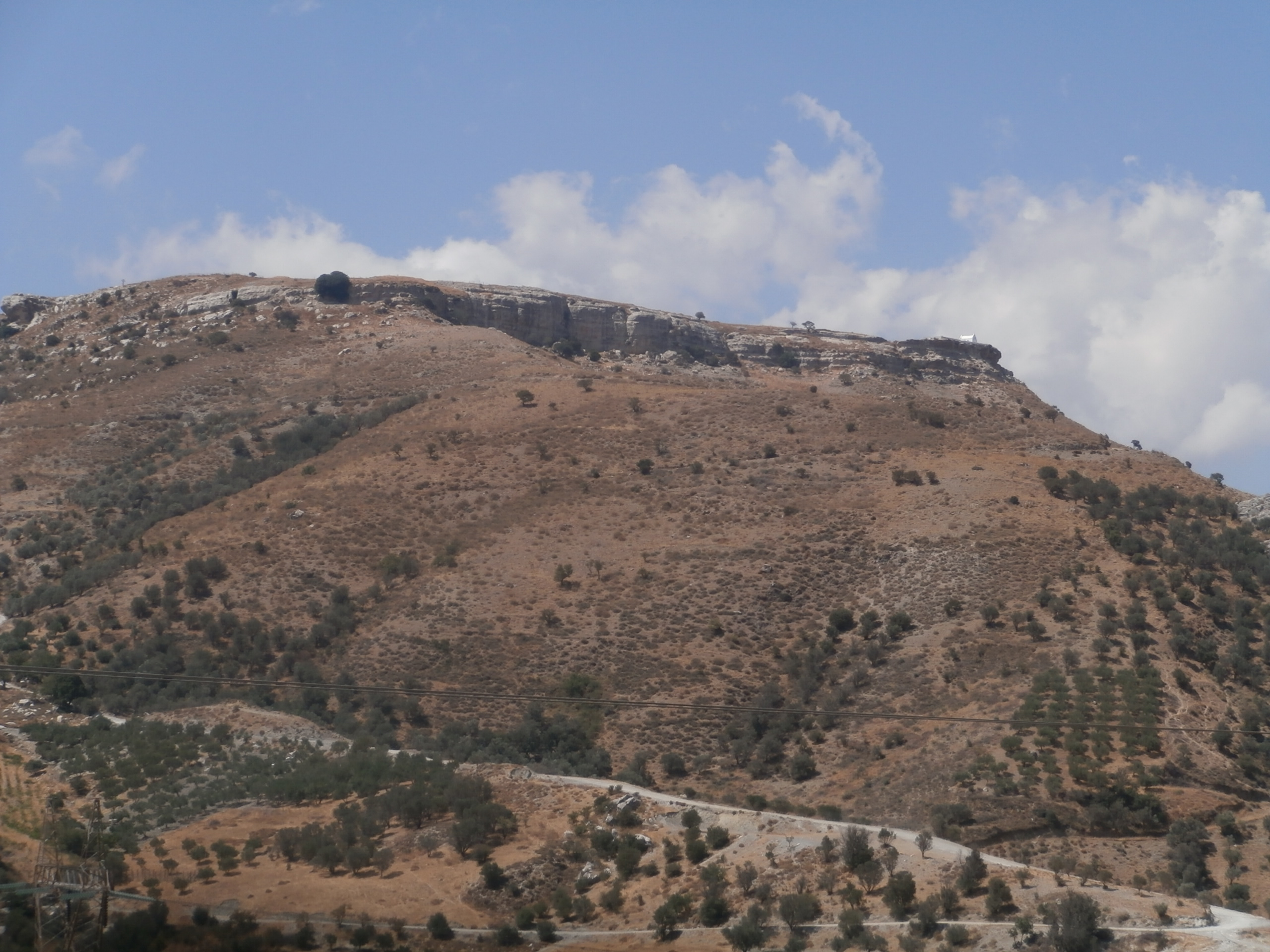 Patella Prinia is a hill near the Prinias village. On the hill is built the ancient town Rizinia, and St. Panenteleimon church, visible here on the edge of the hill.